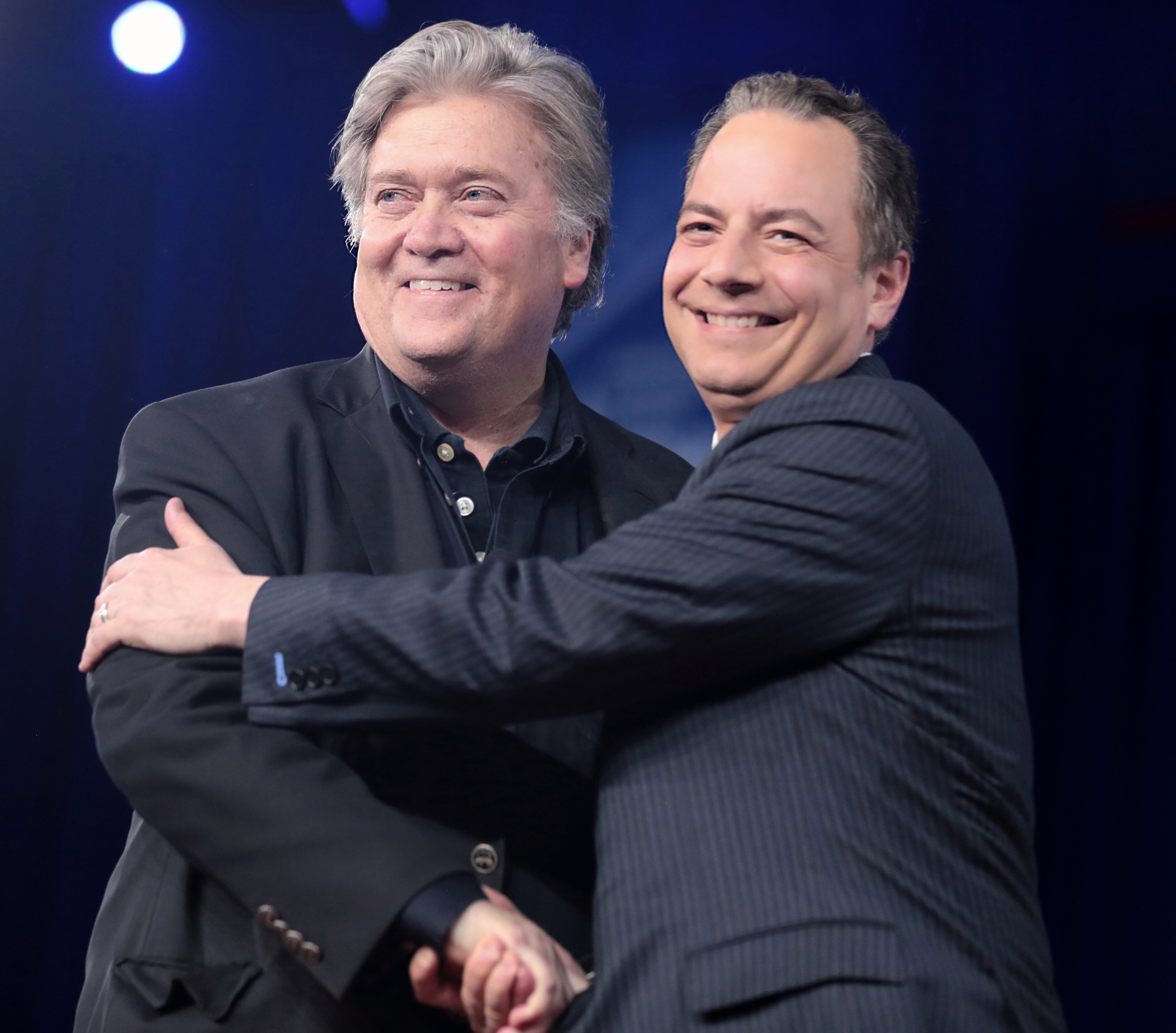 Both assume office on 2017/1/20